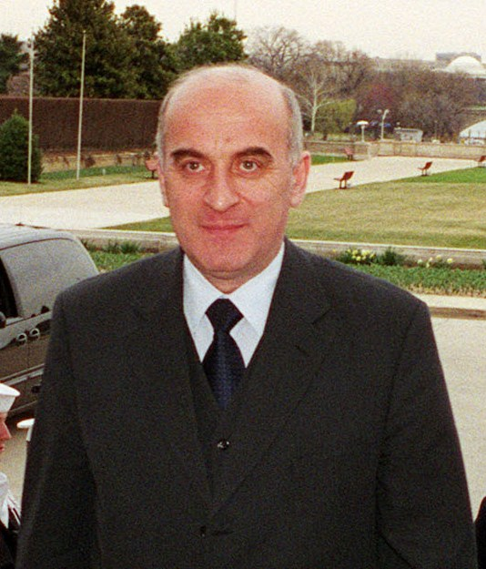 Minister of Foreign Affairs of the Republic of Georgia Irakli Menagharishvili (left) is escorted through an honor cordon and into the Pentagon by Deputy Secretary of Defense Paul Wolfowitz on March 20, 2001. Menagharishvili and Wolfowitz will meet to discuss regional security issues of interest to both nations.